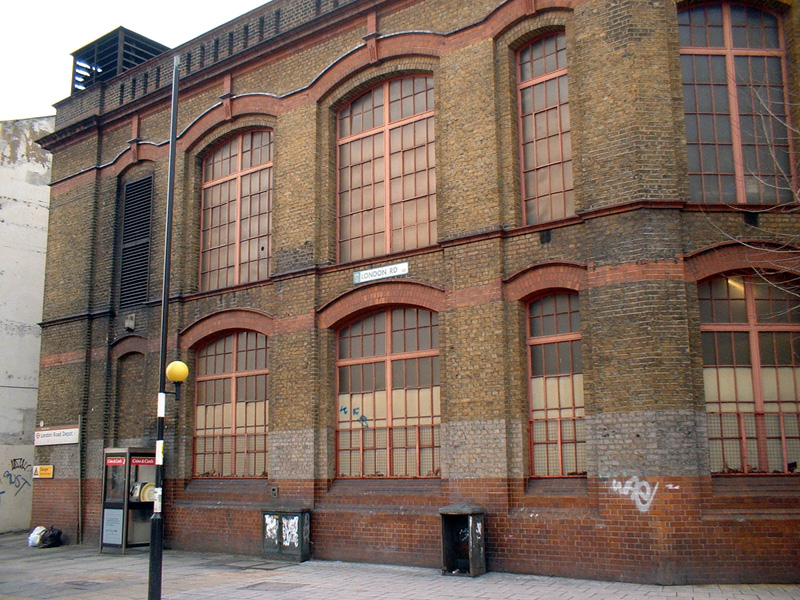 Bakerloo Line depot on London Road (properly called London Road Depot), at St George's Circus, Elephant and Castle.